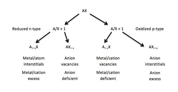 Tree diagram representation of the oxidation and reduction of intrinsic defects in ionic substances.